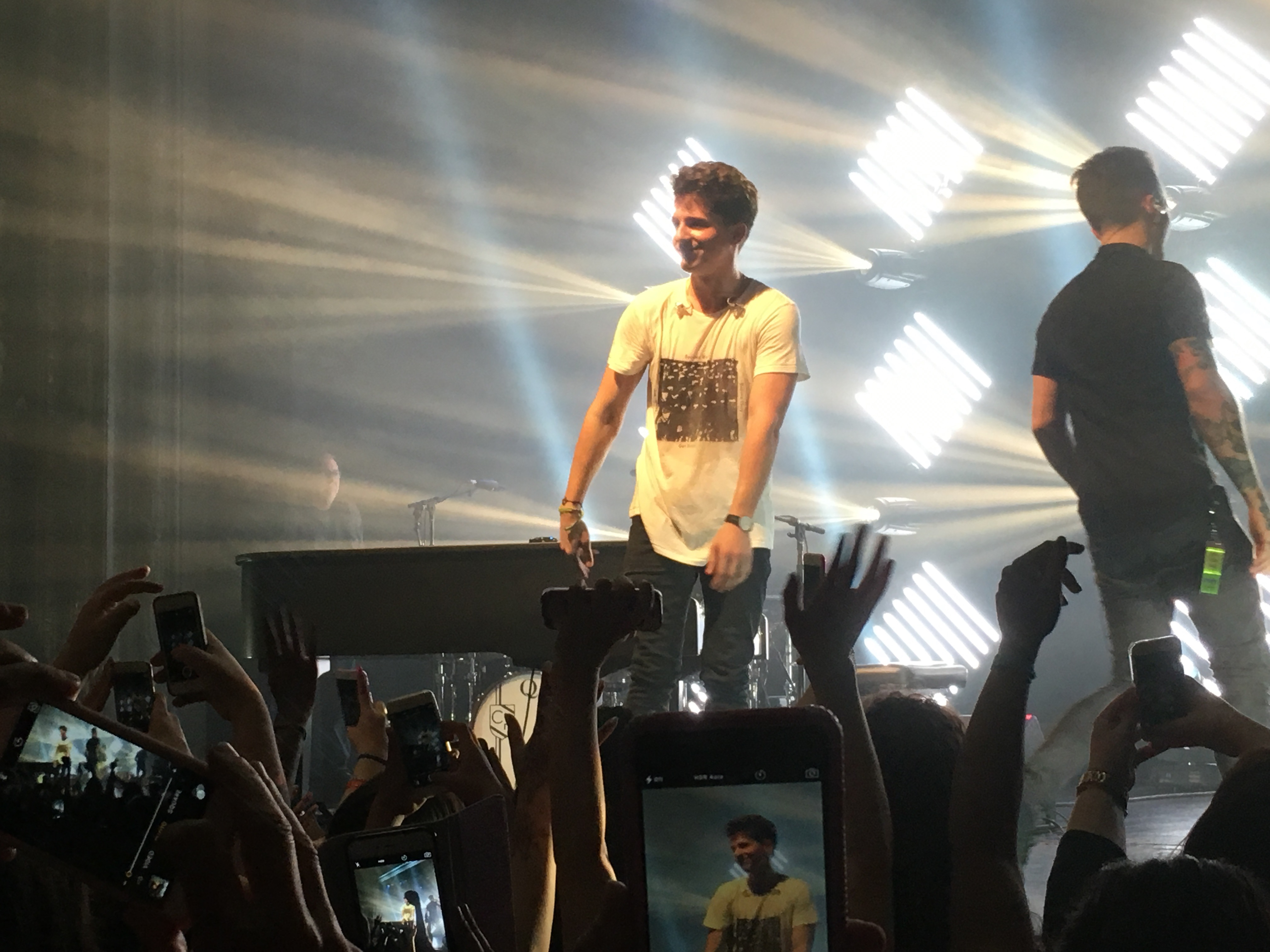 Charlie Puth performing at the Regency Ballroom in San Francisco as part of his Nine Track Mind Tour in March 2016